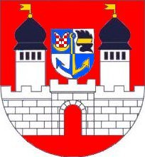 Municipal coat of arms of Trmice town, Ústí nad Labem District, Czech Republic.